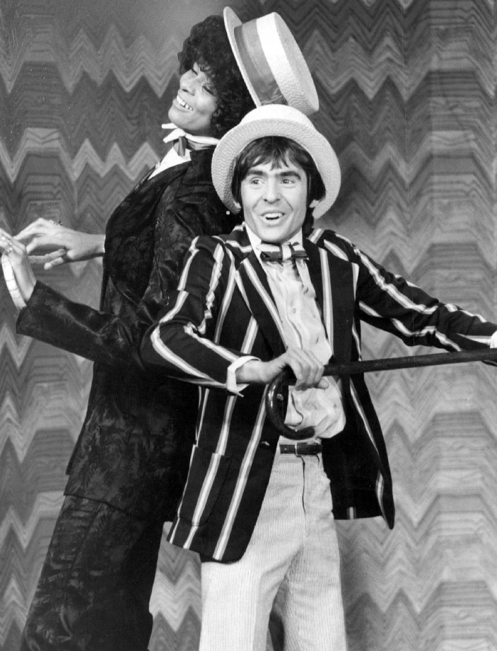 Photo of Ilene of "Sunday's Child" (Ilene Anderson) and Davy Jones: publicity photo for the ABC television program Pop (possibly called 'Pop Goes Davy Jones).